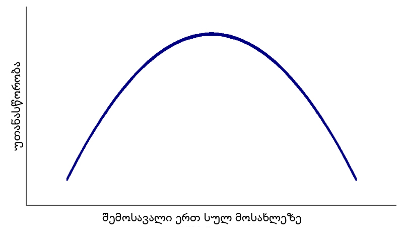 Kuznets curve